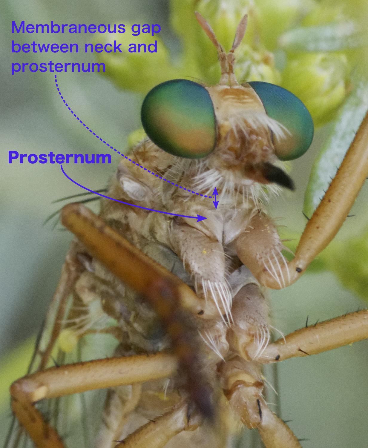 Ventral view of the thorax in Diogmites angustipennis